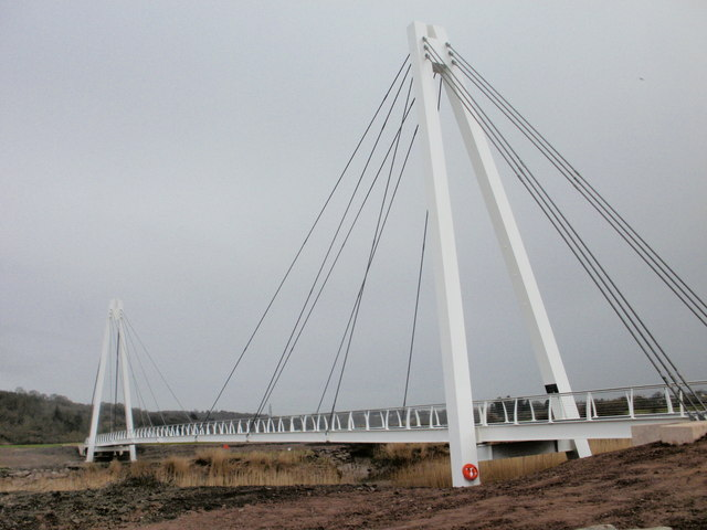 The Twenty Ten Bridge, Celtic Manor Resort, Newport, Wales